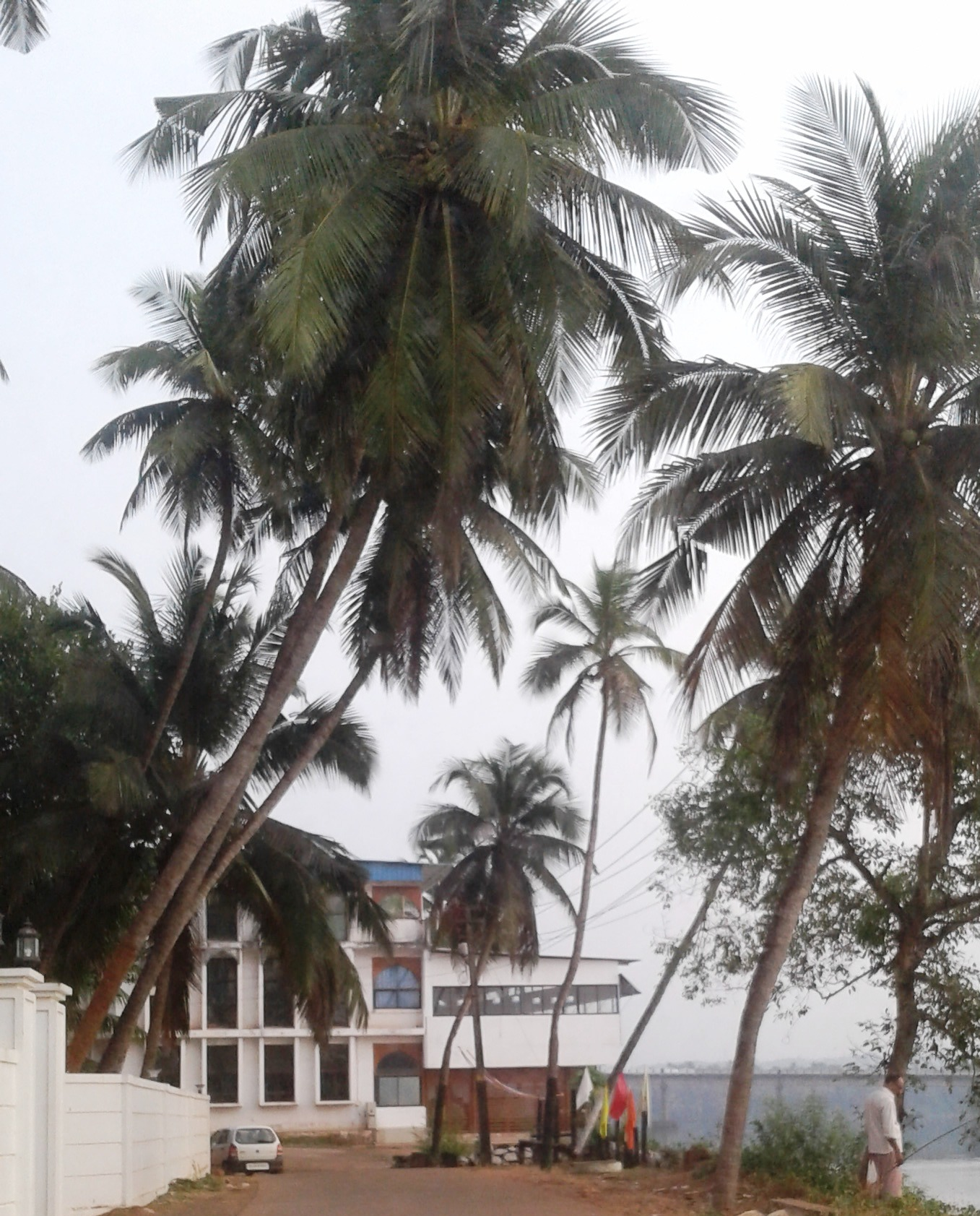 This is a beautiful riverside picnic spot located two kilometers east of Kasaragod Railway station, Kerala state, India. The beautiful Chandragiri river has a bridge for going to Kanhangad town and this place is also popular with anglers.